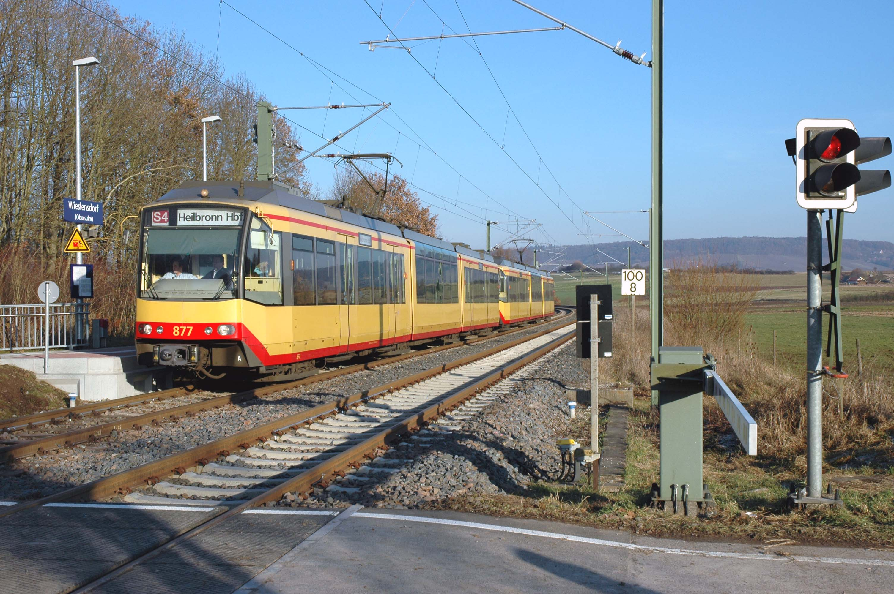 AVG's Car no. 877 of type GT8-100, location: Obersulm-Wieslensdorf